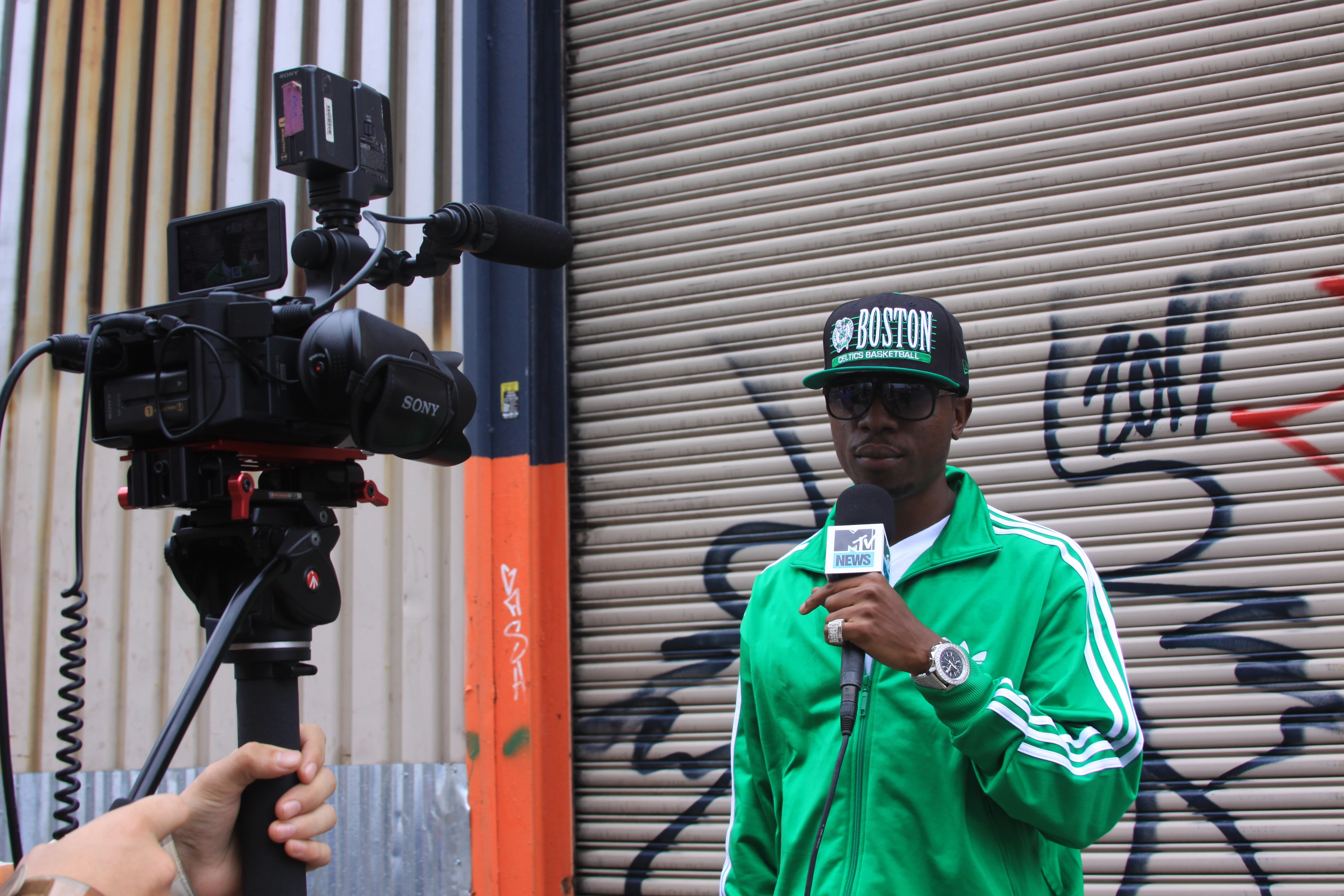 Aone_Beats at the wyclef studio's 2011